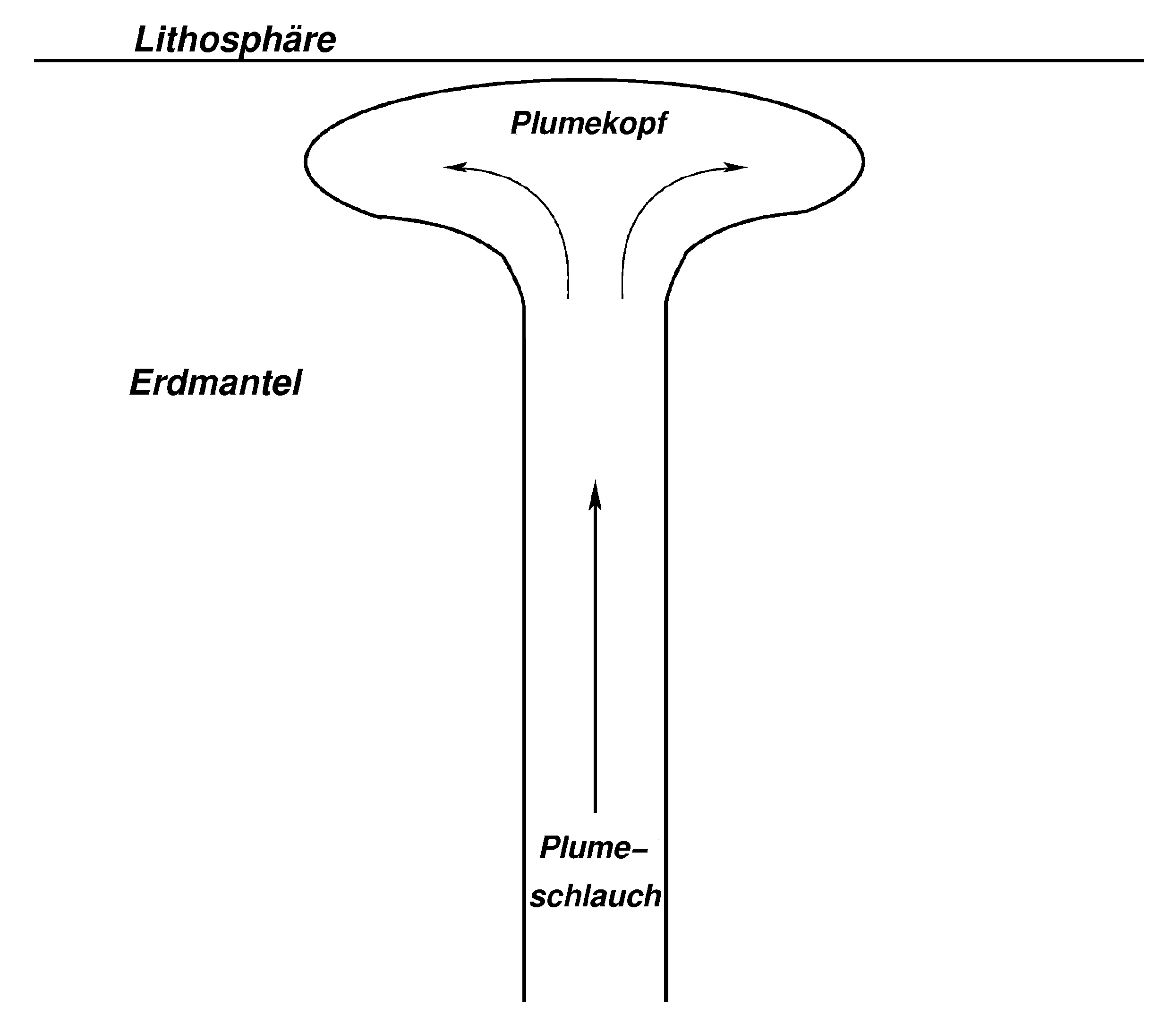 Schematic figure of a mantle plume with a narrow plume conduit (Plumeschlauch) and the spreading plumehead (Plumekopf)